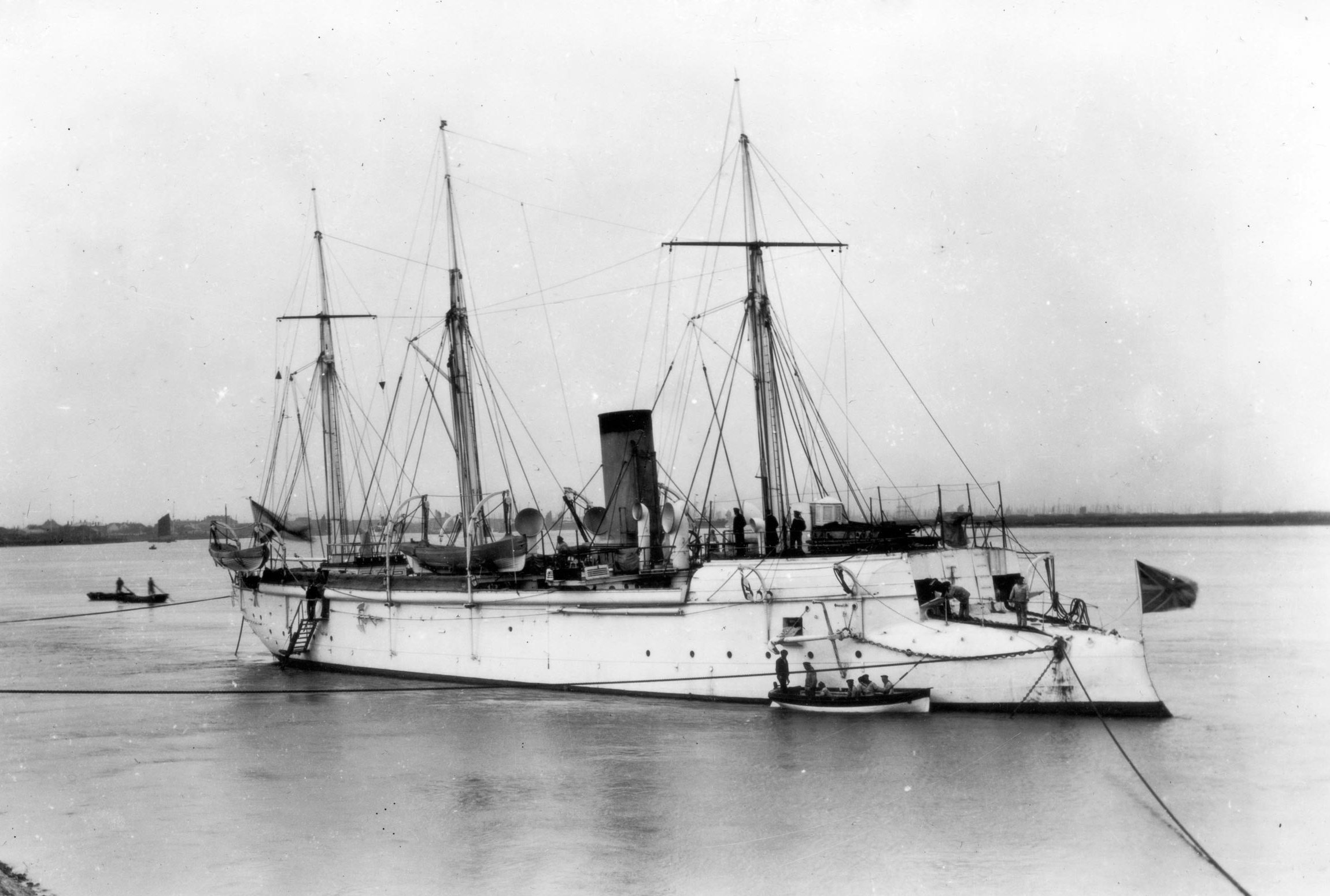 The Imperial Russian seagunboat «Sivuch».